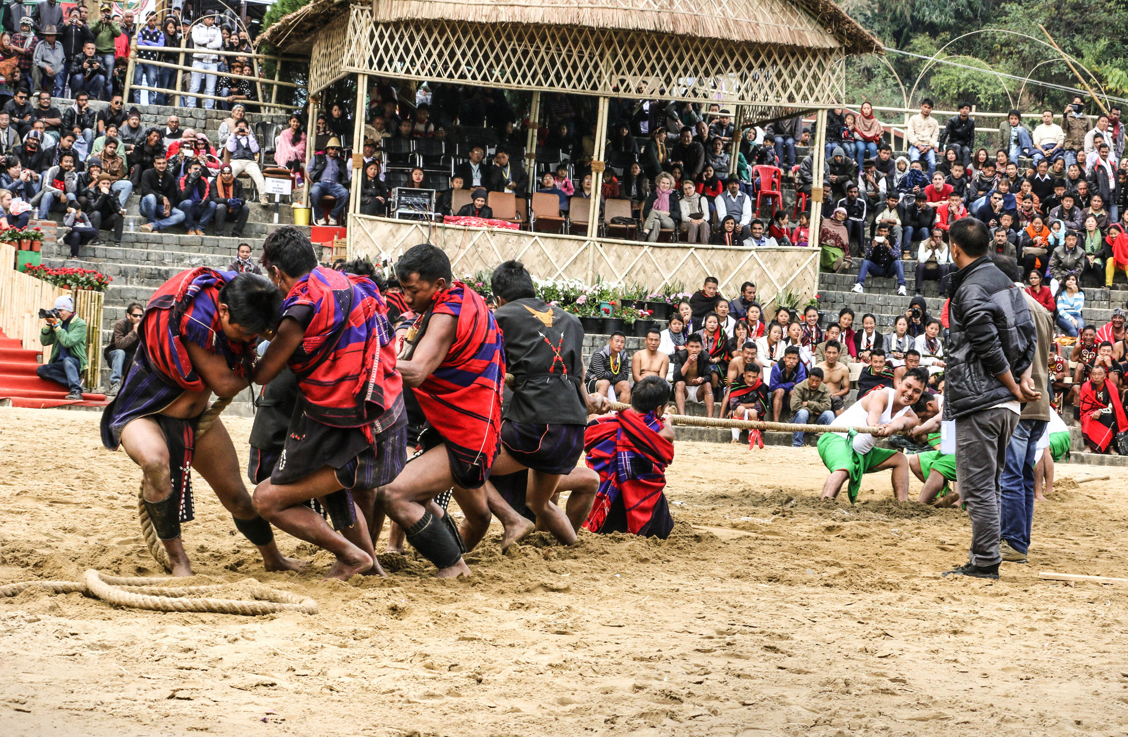 Hornbill Festival event in 2018